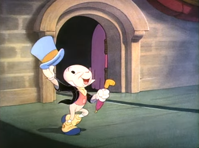 Jiminy Cricket in the trailer for his home film, 1940's Pinocchio, produced by Walt Disney.